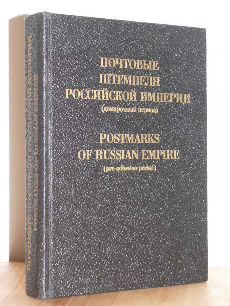 Book by Dobin, Manfred. Postmarks of Russian Empire (pre-adhesive period), Standard-Collection, St. Petersburg (1993).